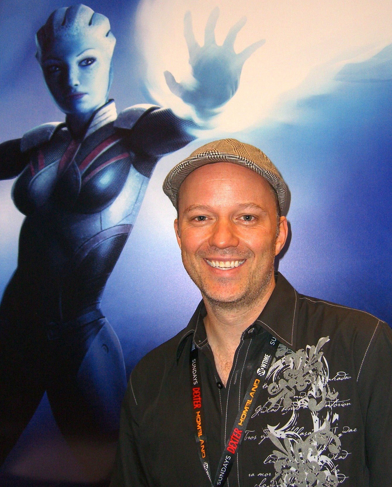 Comics creator Mac Walters at the New York Comic Con, October 15, 2011. This photo was created by Luigi Novi. It is not in the public domain, and use of this file outside of the licensing terms is a copyright violation.